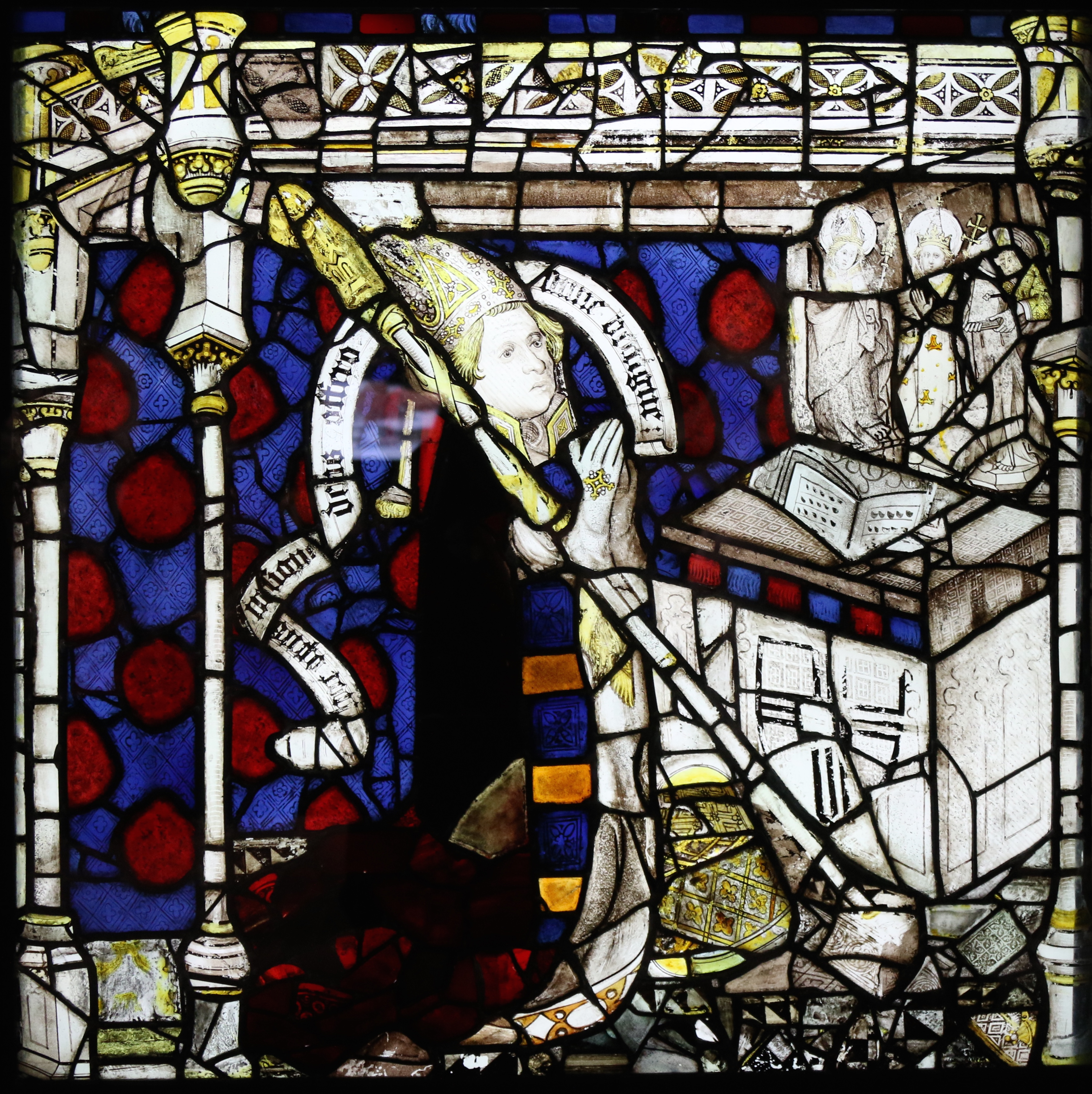 Bishop Walter Skirlaw was the benefactor of the window.